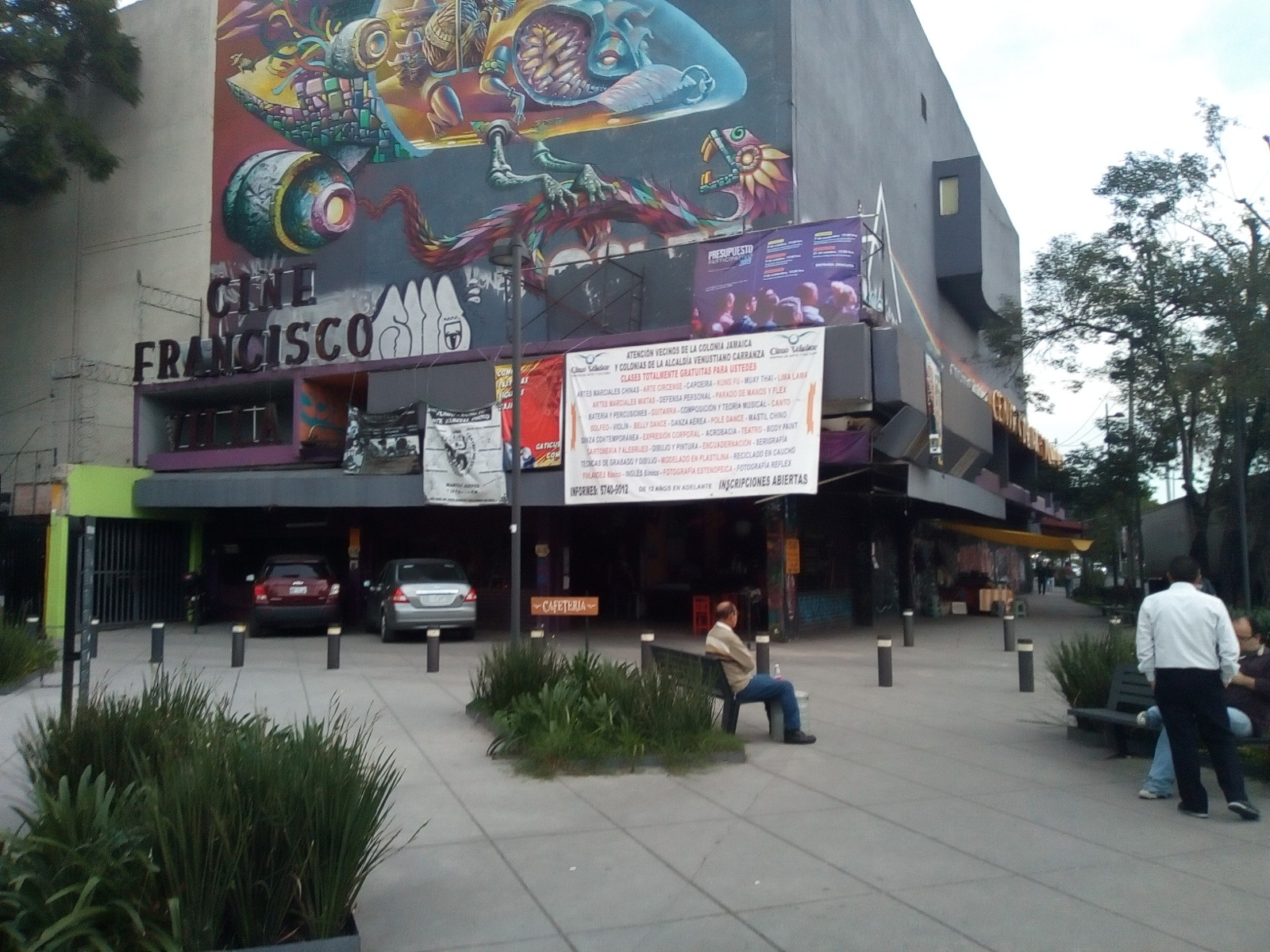 Facade Circo's Building, the former building of the Francisco Villa cinema